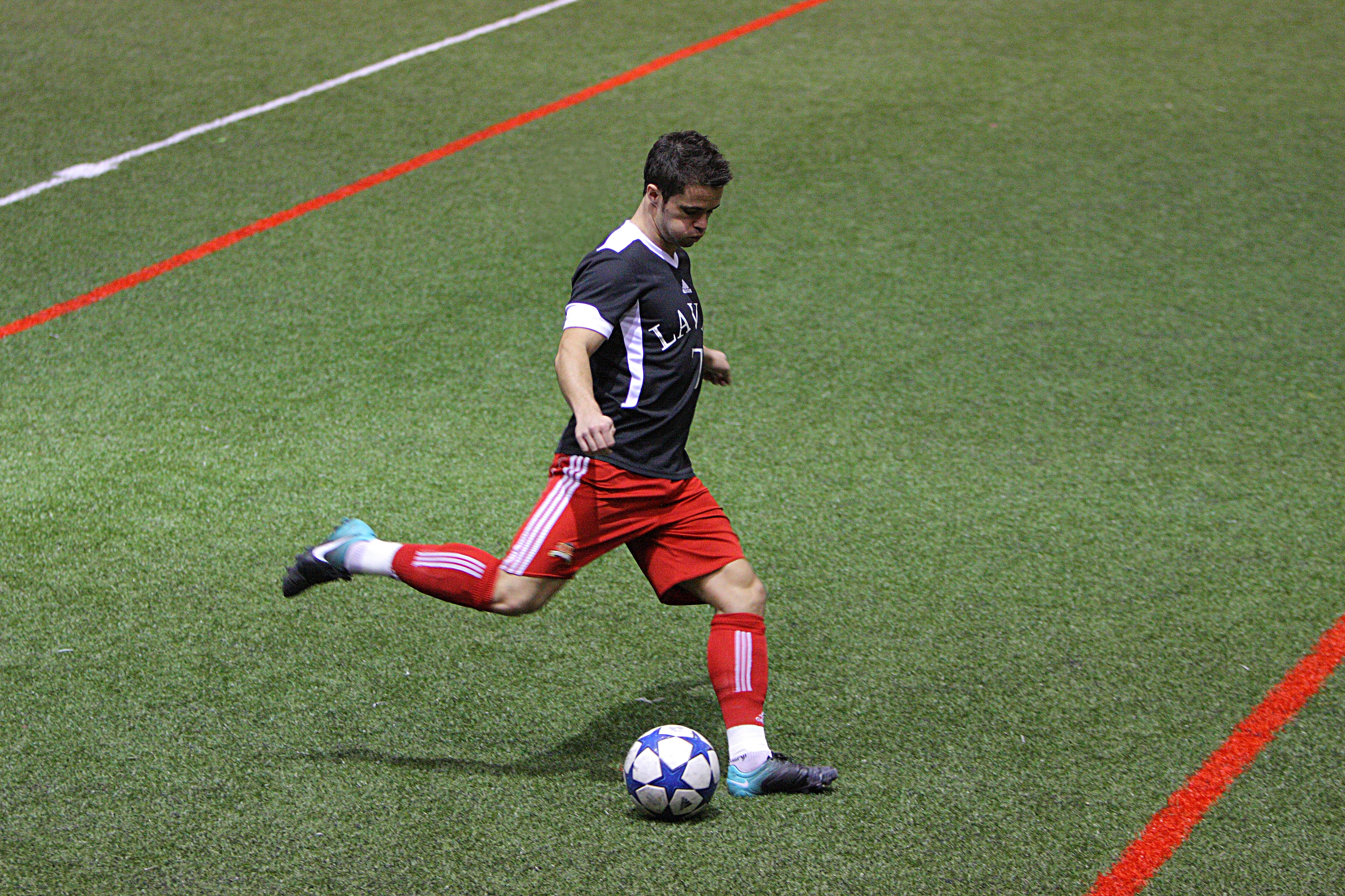 Julien Priol of Laval Rouge et Or in TELUS-Université Laval stadium.